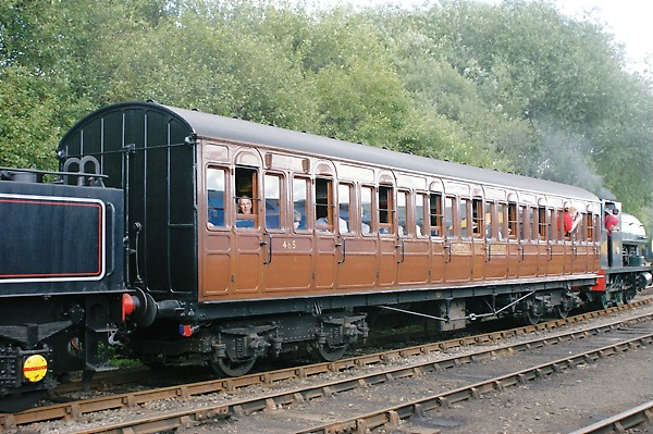 Metropolitan Railway "Dreadnought" Third Compartment No.465, of 1910 design but built 1919 by the Metropolitan C&W Co. At Barrow Hill, 06/08.